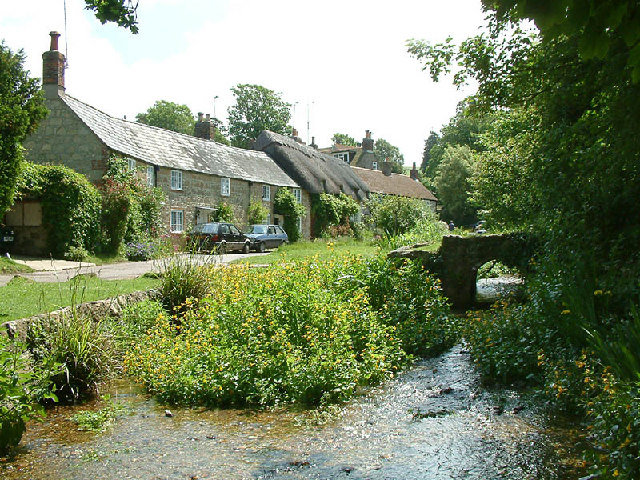 Winkle Street. The chocolate-box image of Winkle Street (also known as Barrington Row) in Calbourne, with the Caul Bourne running in front of the houses, once powering five mills